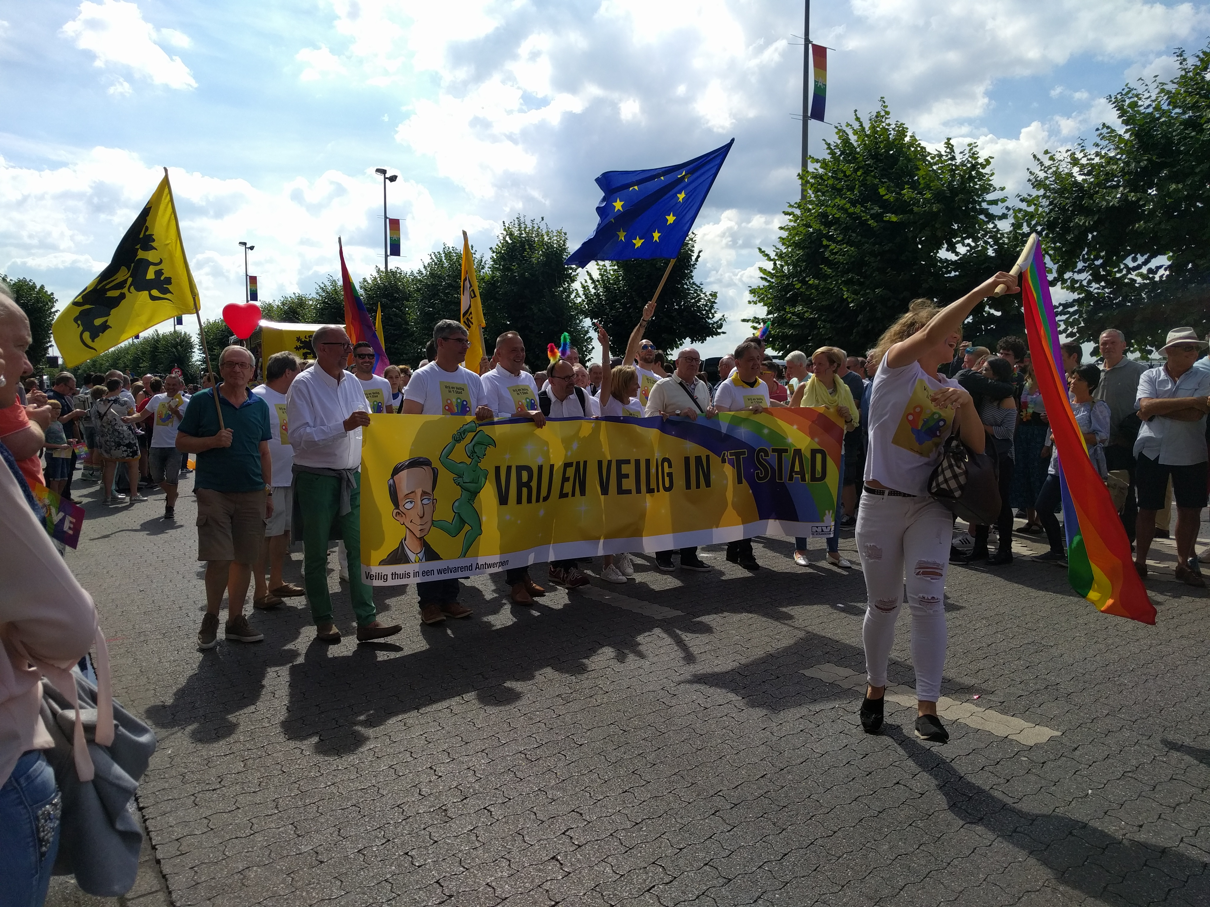 The New Flemish Alliance (N-VA) at the Antwerp Pride 2018 with a banner saying "free and safe in [our] city"